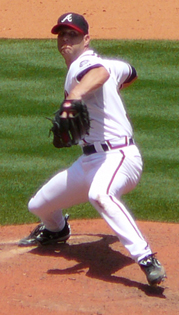 Picture I took on 5-10-07 23:18, 13 May 2007 . . Chrisjnelson . . 179×315 (99,506 bytes)